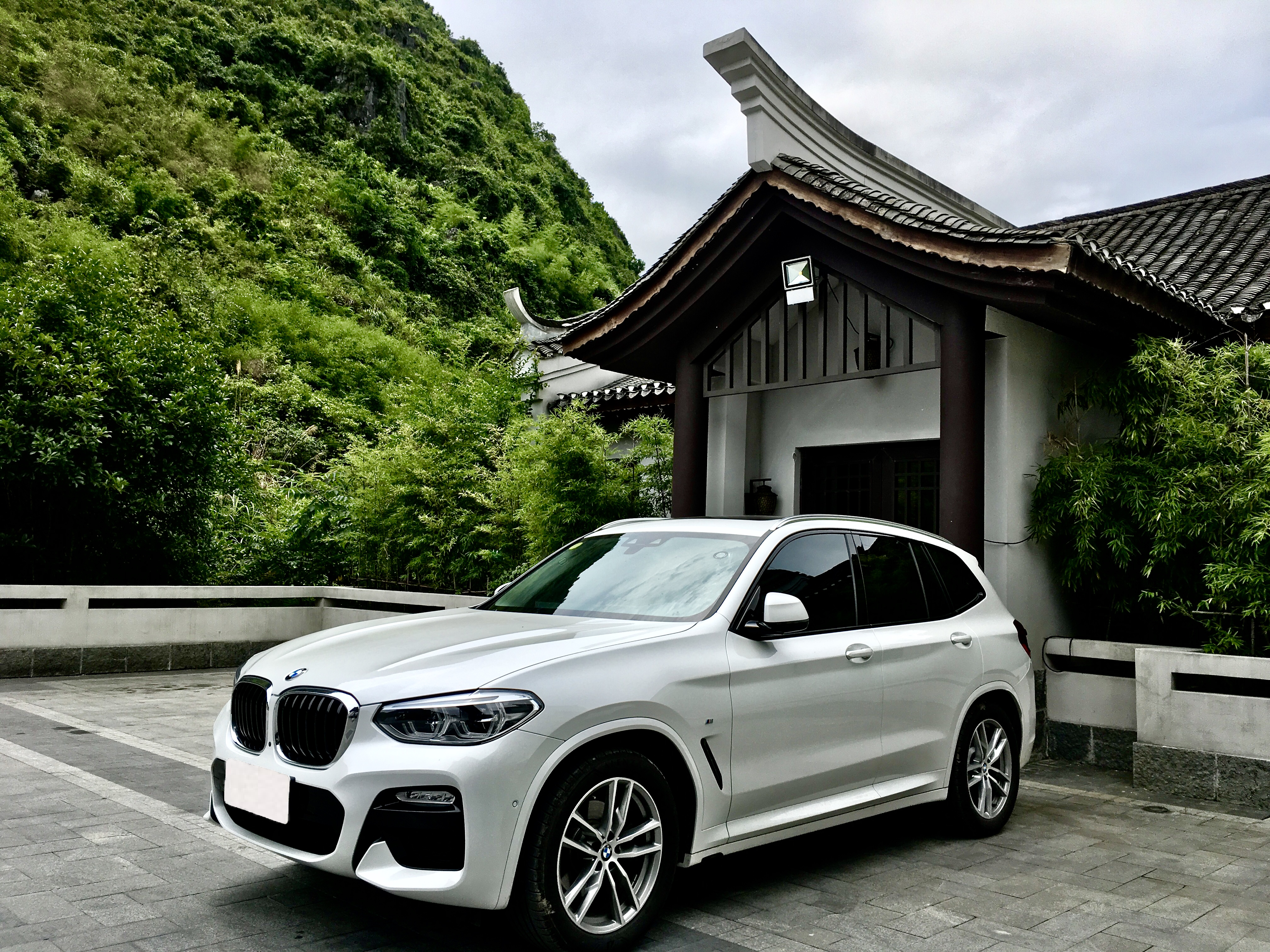 BMW X3 G01 30i M-Sport